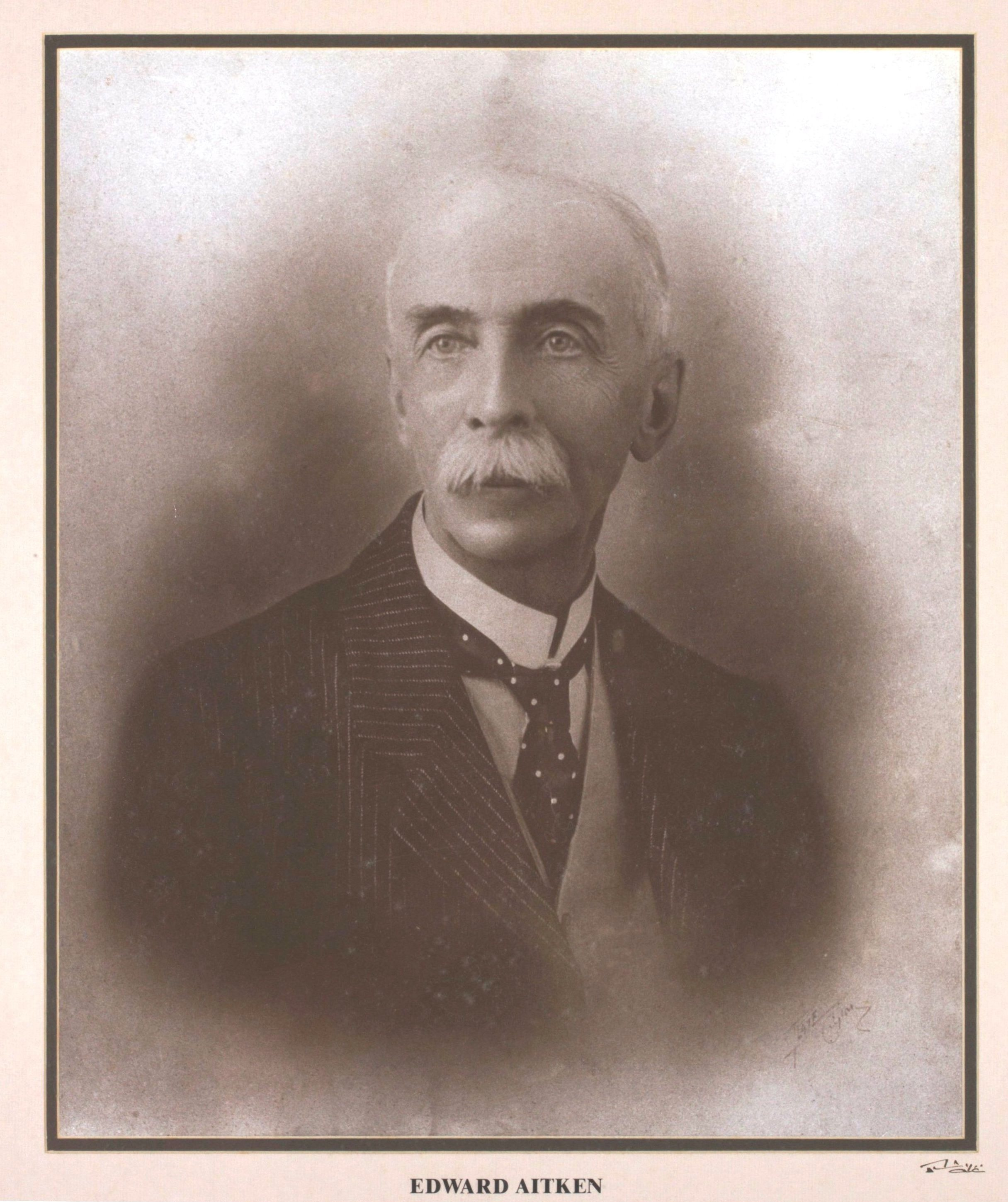 Edward